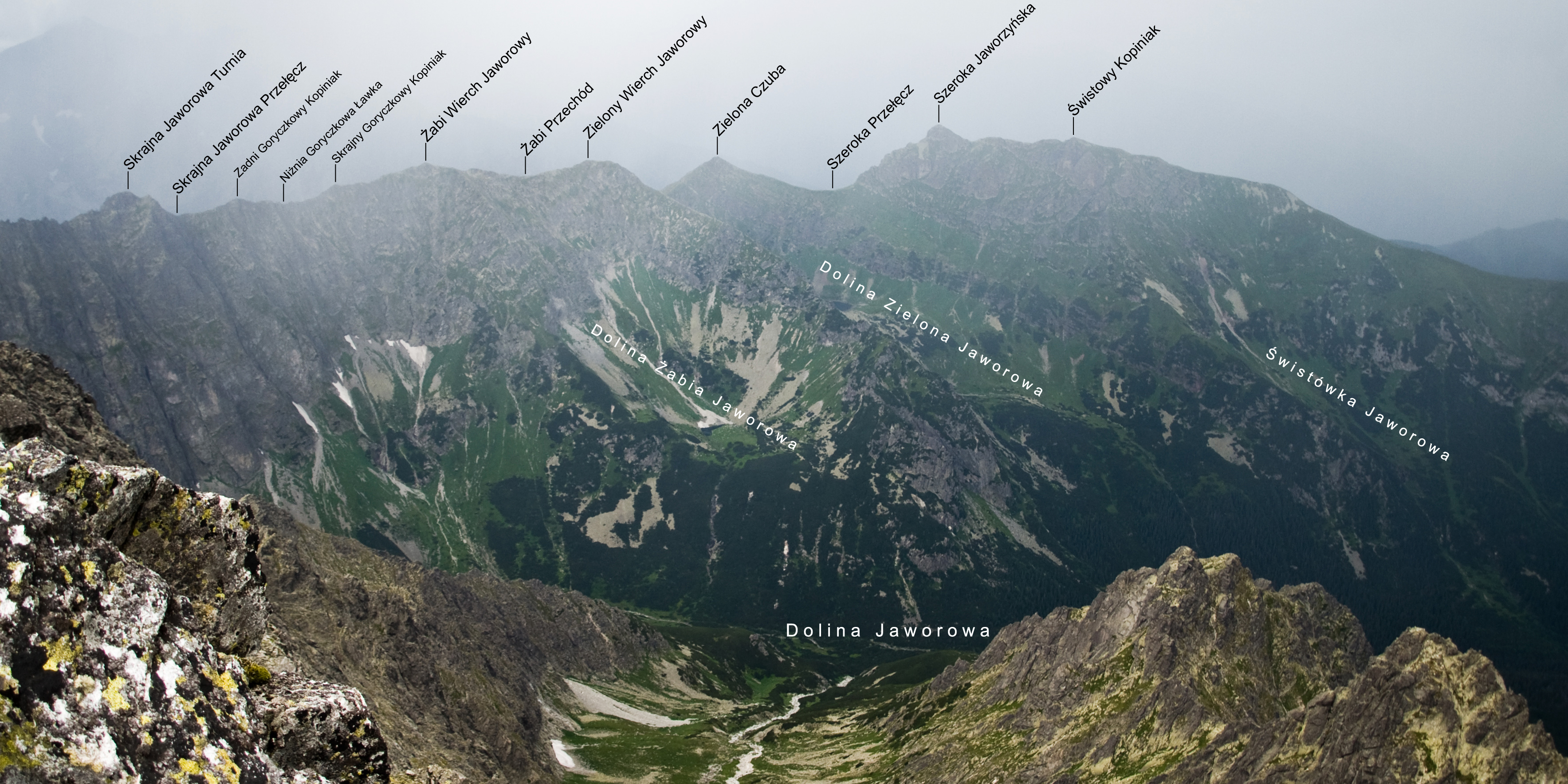 Žabí vrch Javorový, Štít nad Zeleným and Široká. View from Ľadový štít. Polish names of peaks, saddles and valleys.